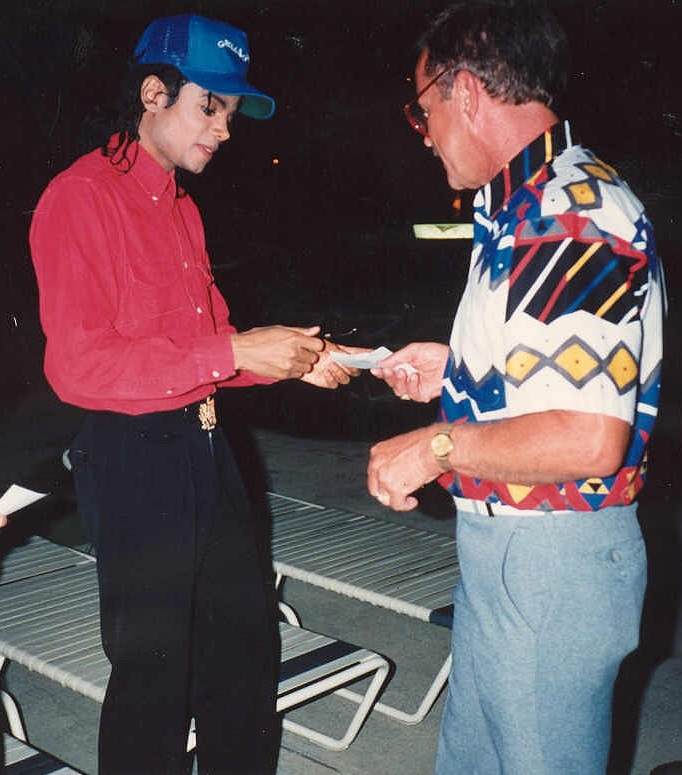 Photo taken at the Kahala Hilton Hotel, late January 1988 - Michael Jackson signing an autograph